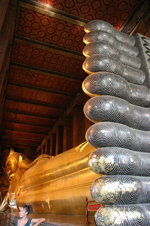 The large Reclining Buddha at Wat Pho, Bangkok, Thailand